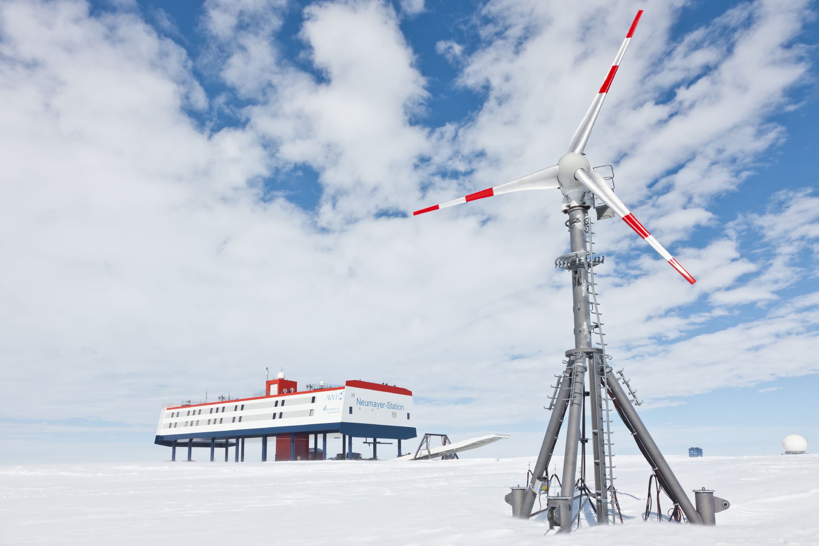 Neumayer-Station III at Atka-bay, Ekström-shelf ice, Weddell-sea, Antarctica. A 30 kW wind generator from the Type Enercon E-10 is an additional source of energy and is directly connected to the energy sytem of the station.